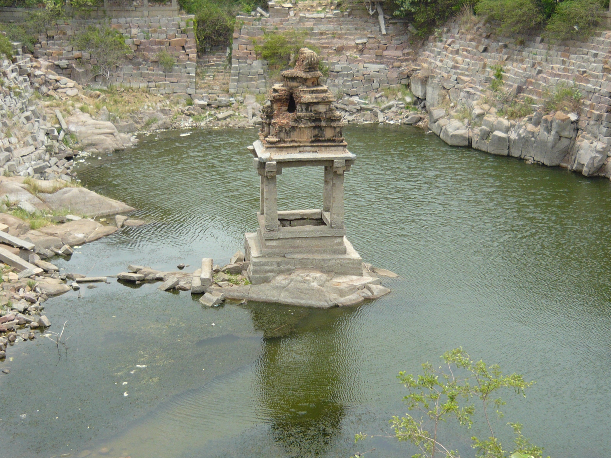 Central catchment area of Penukonda Fort, accentuated with a Mantapam